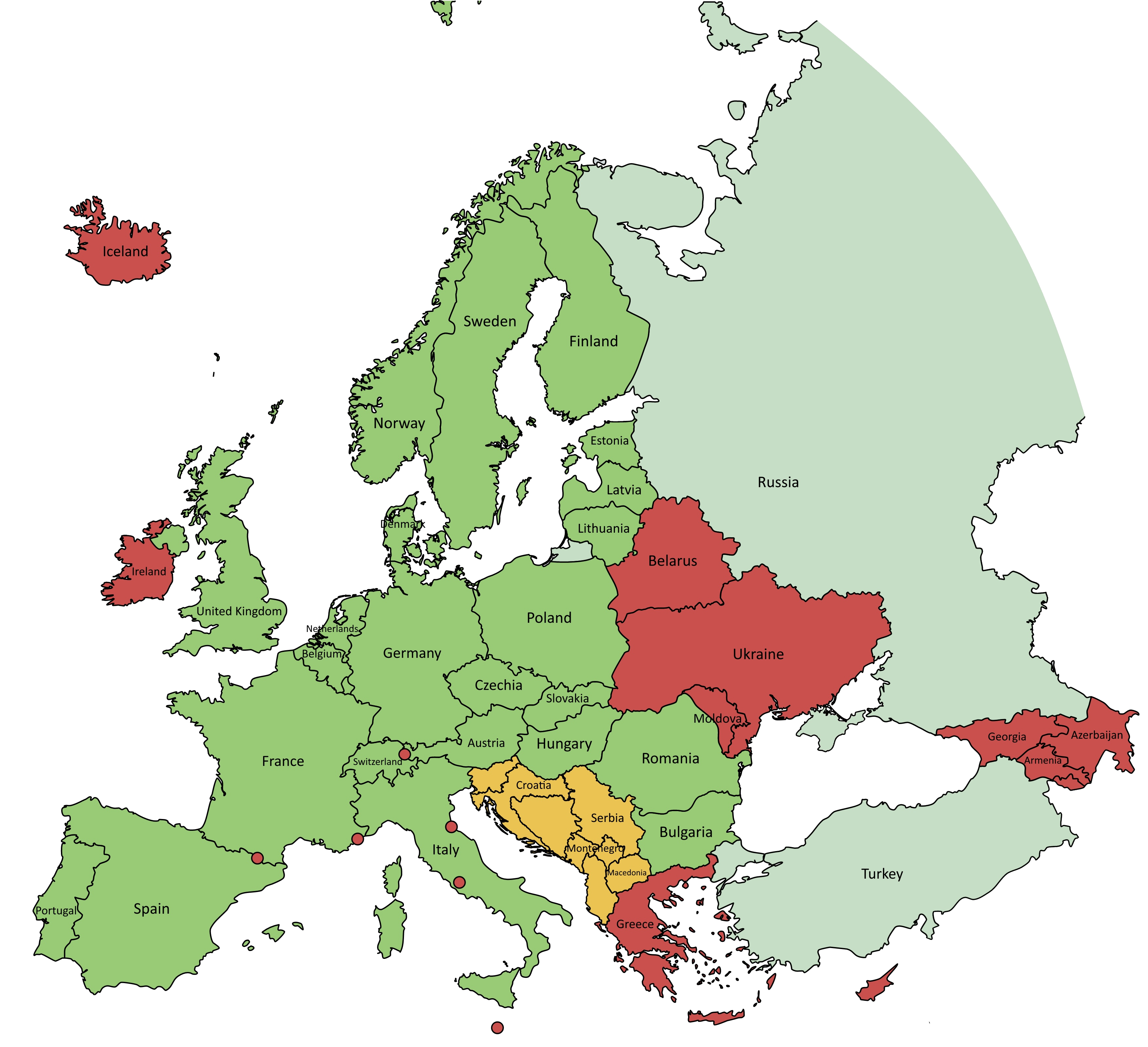 As of 17th June 2019, ETS2 version 1.35.1.1s: available countries are marked green, countries under development are marked orange and red are countries which aren't yet announced. Countries, which only have a part modelled/announced are colored pale. Created with QGIS 3.6.1-Noosa.